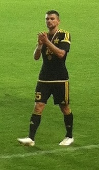 Sušić in Moldova Supercup 2015